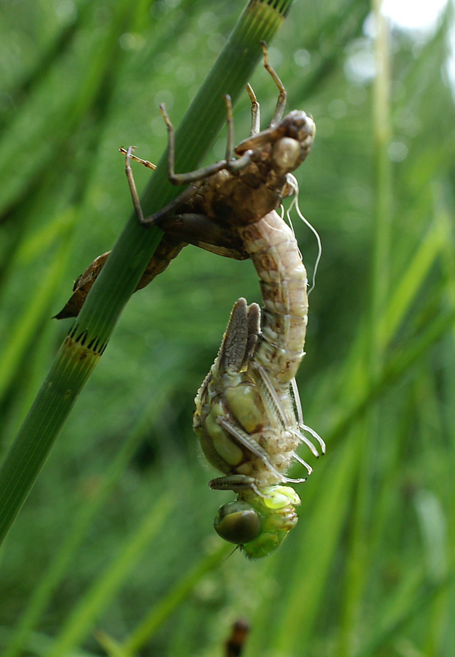 Aeshna cyanea and Exuvie.